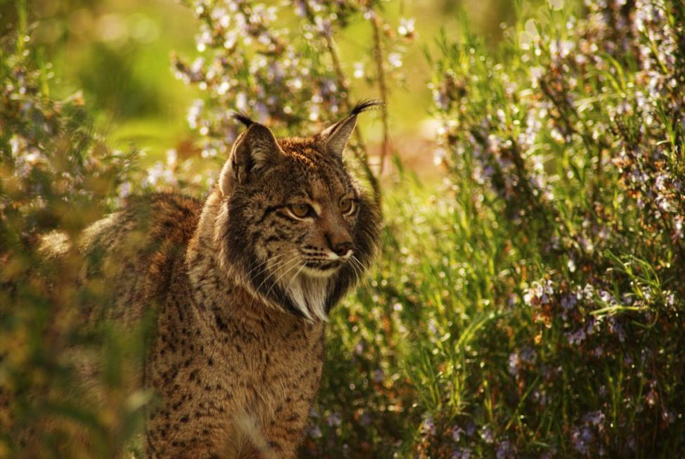 Iberian Lynx adult from the Program Ex-situ Conservation